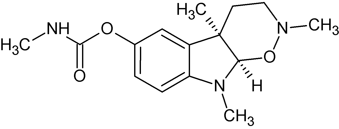 chemical structure of eseridine